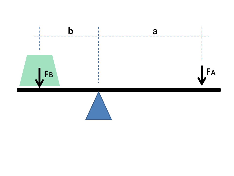 Diagram of lever to use in explanation of mechanical advantage